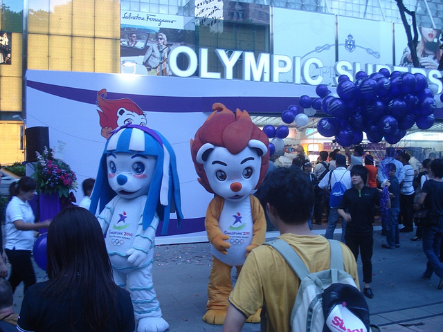 2010 Summer Youth Olympics mascots Merly and Lyo at the Youth Olympic Games Superstore in front of Ngee Ann City on Orchard Road, Singapore.